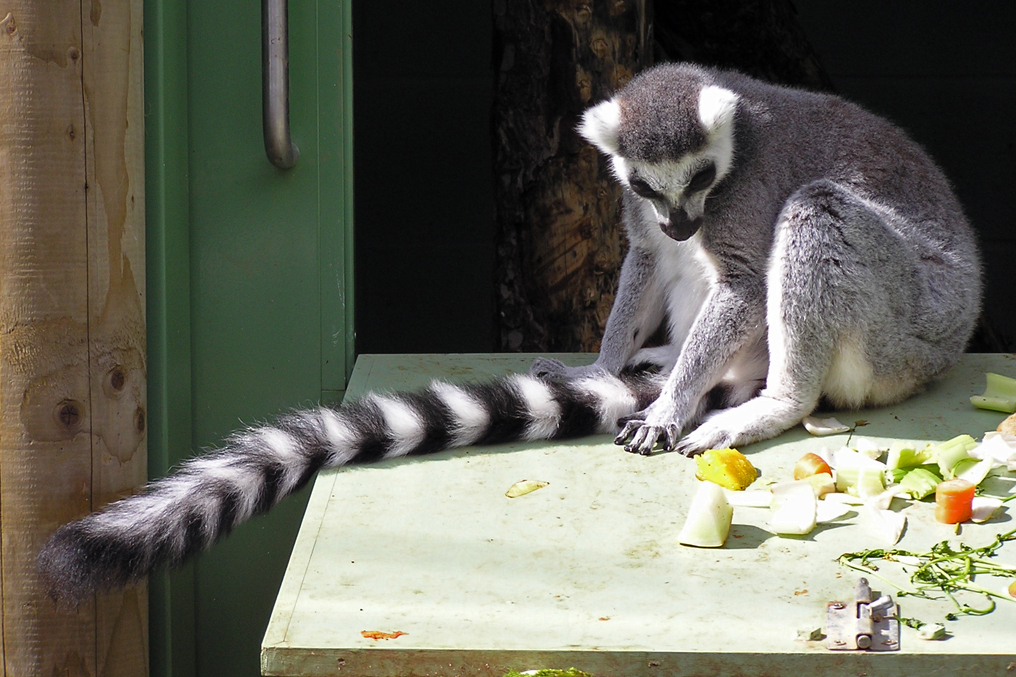 Ring-tailed lemur, Bristol Zoo Gardens